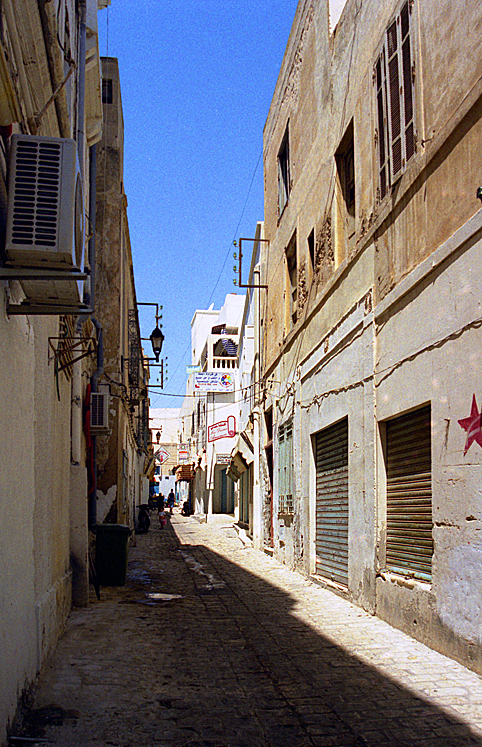 Inside Medina of Sousse. Tunisia.